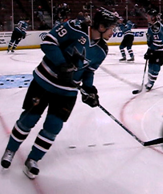 Tomáš Plíhal during warmups